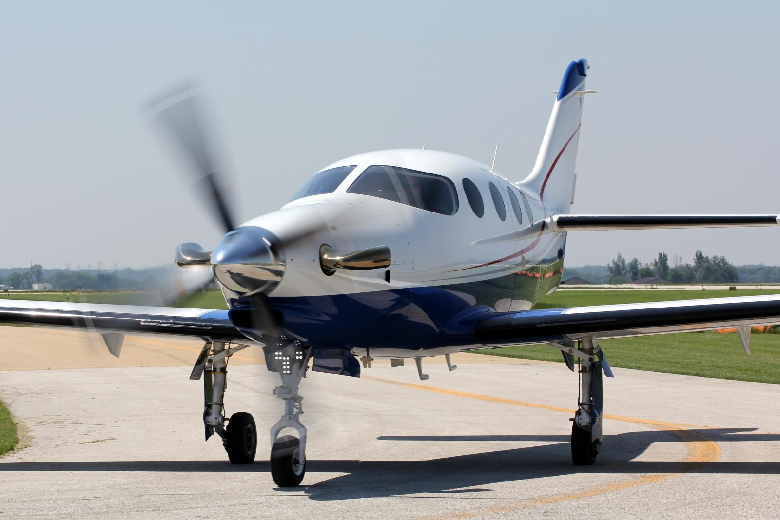 2008 Tulip Aircraft Llc EPIC LT C/N 021